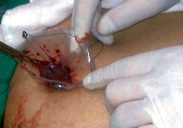 Morselled spleen being retrieved transumblically in an endobag.